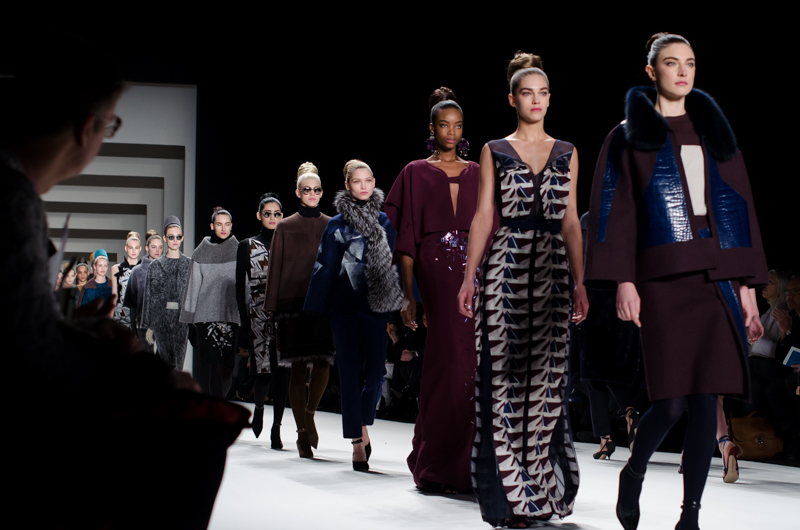 A model walks the runway at the Carolina Herrera Fall/Winter 2014 show at New York Fashion Week, February 2014.